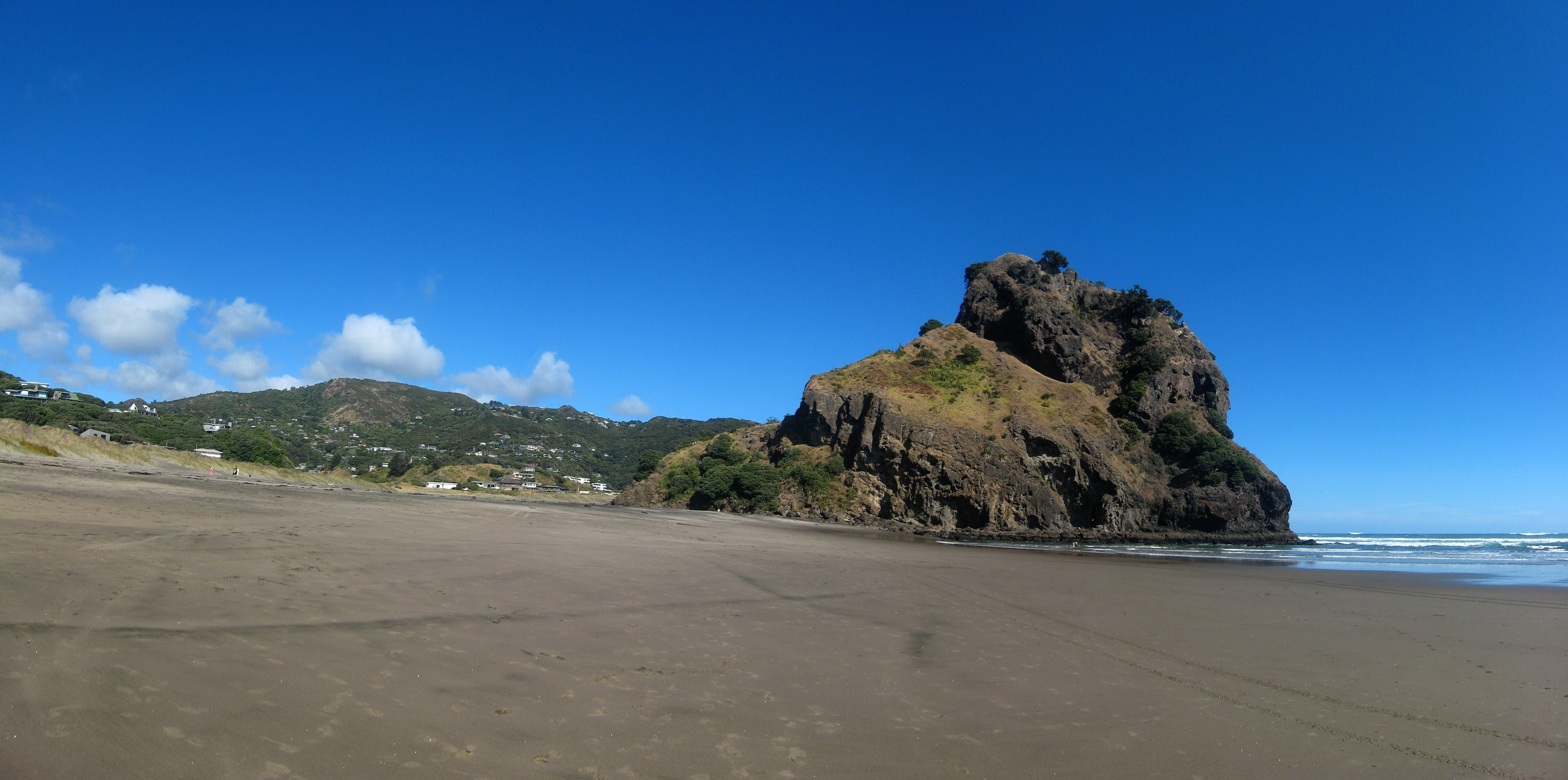 Lion Rock, viewed from North Piha, west of Auckland, New Zealand. People at the base of Lion Rock and climbing up its back give an idea of the scale.